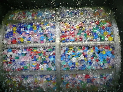 RCBR rotating cell containing bacterial carriers